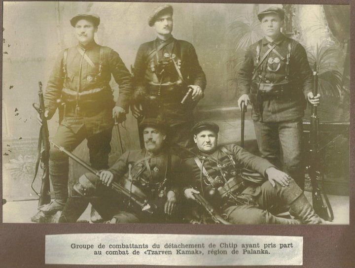 Cheta of Georgi Spanchevski, bulgarian revolutionary from IMRO, that fought serbian datachment in peak Tsarven kamen